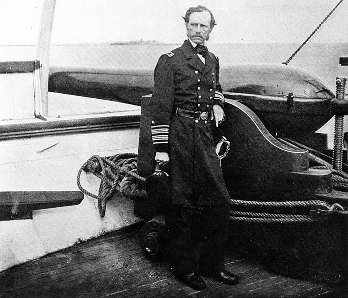 Rear Admiral John A. Dahlgren, USN, standing beside a 50-pounder Dahlgren rifle, on board USS Pawnee in Charleston Harbor, South Carolina, circa 1863-1865. He was then commanding the South Atlantic Blockading Squadron. Identification of the gun is from Warren Ripley: "Artillery and Ammunition of the Civil War", page 104.